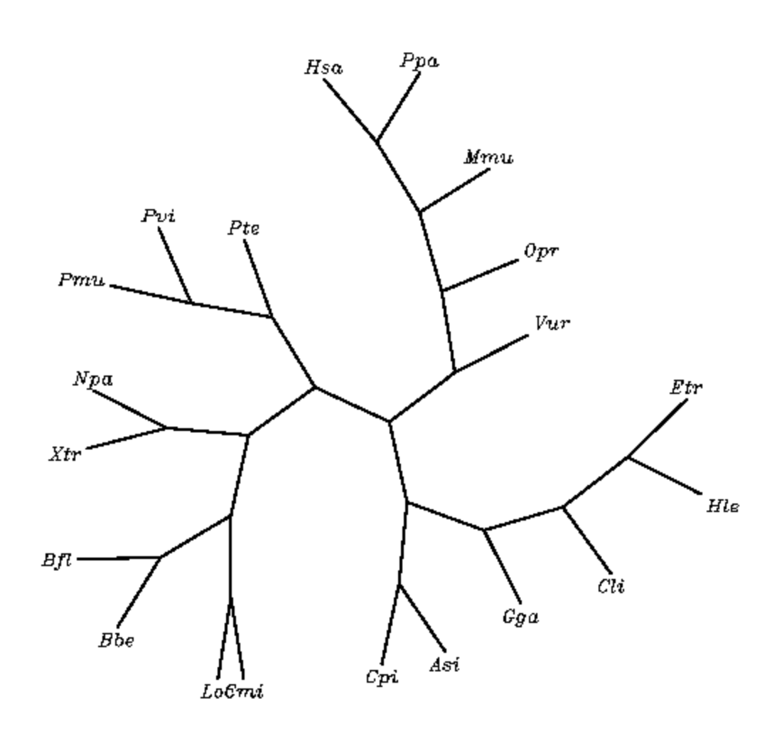 An unrooted tree of only a few orthologs for the PRR16 gene